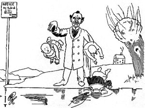 Illustration by John White Alexander for the poem "Father heard his children scream", in Ruthless Rhymes for Heartless Homes, by Harry Graham writing under the pseudonym Colonel D. Steamer.